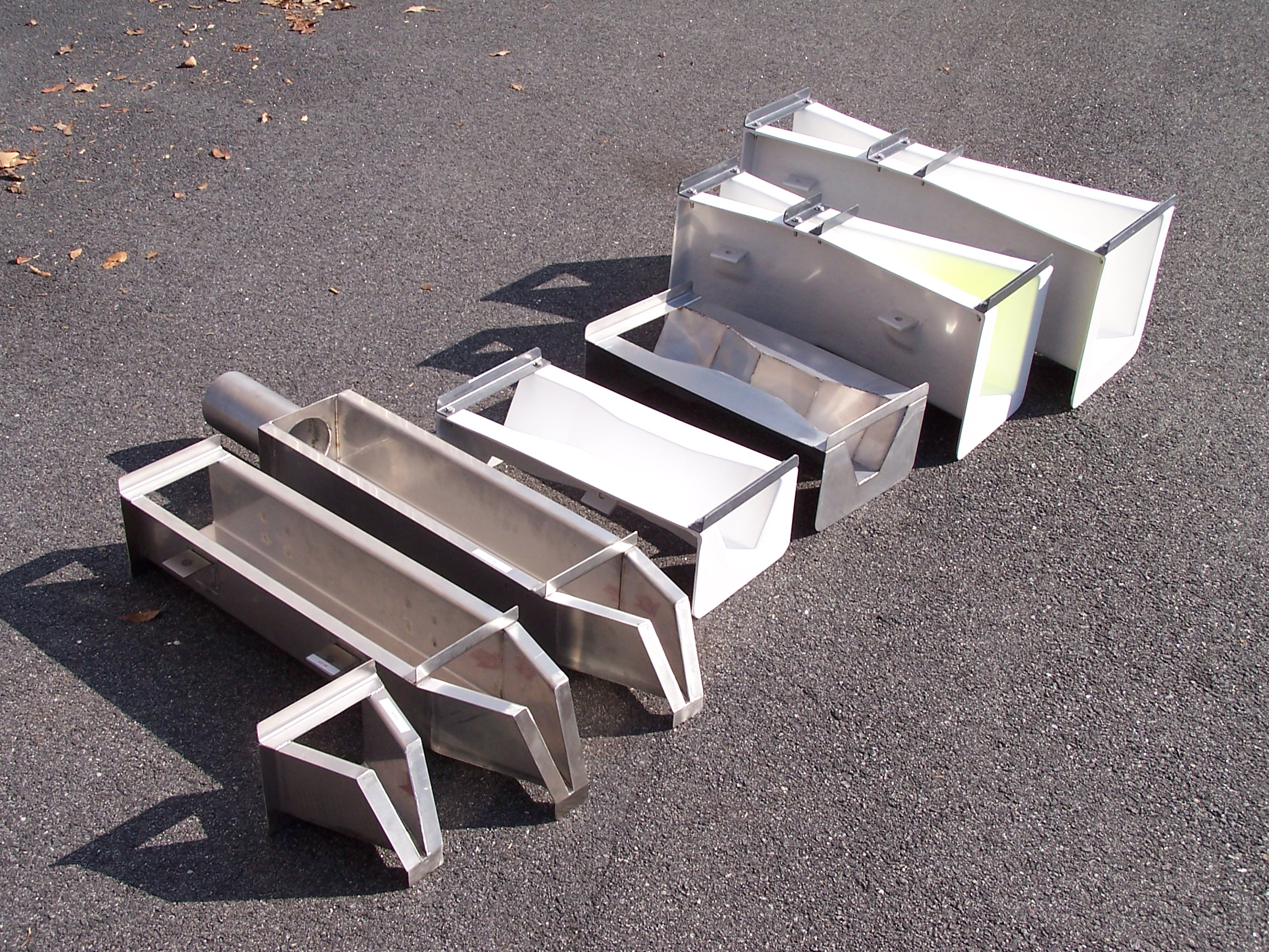 HS-Type, Trapezoidal, and Parshall Flow Measurement Flumes, in Stainless Steel and Composite (FRP) Construction